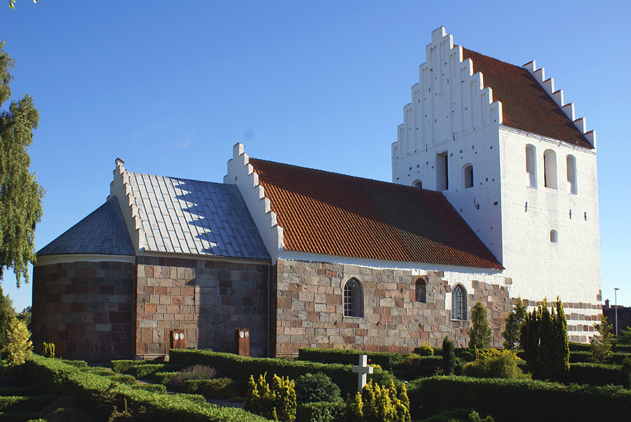 Flødstrup Church, Nyborg Kommune, Denmark